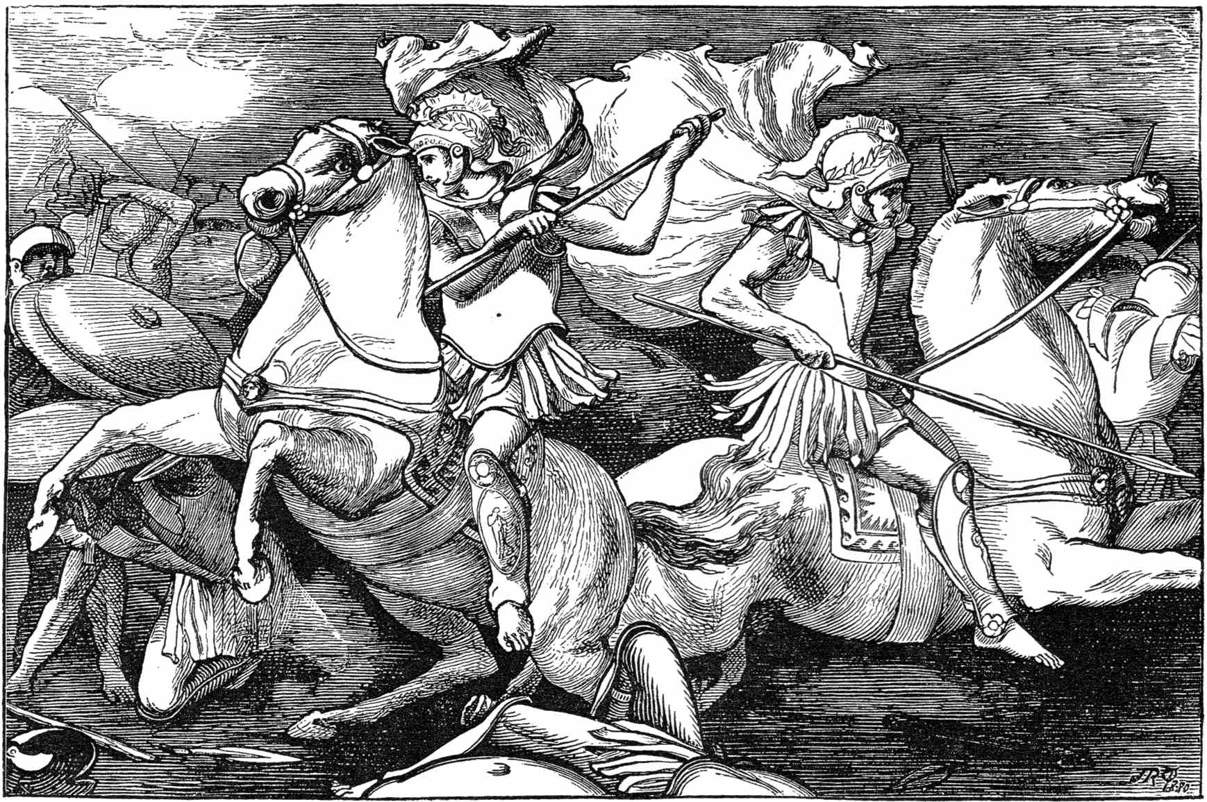 Showing Castor and Pollux fighting at the Battle of Lake Regillus. Woodcut from Engraving by John Reinhard Weguelin (1849 to 1927). Drawing is signed "JRW1880" in bottom right corner